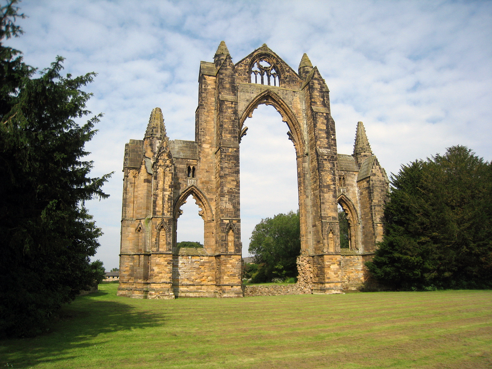 The east window of Gisborough Priory as seen from the east